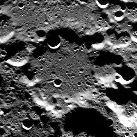 Haskin lunar crater - LRO-WAC image. North towards lower left.